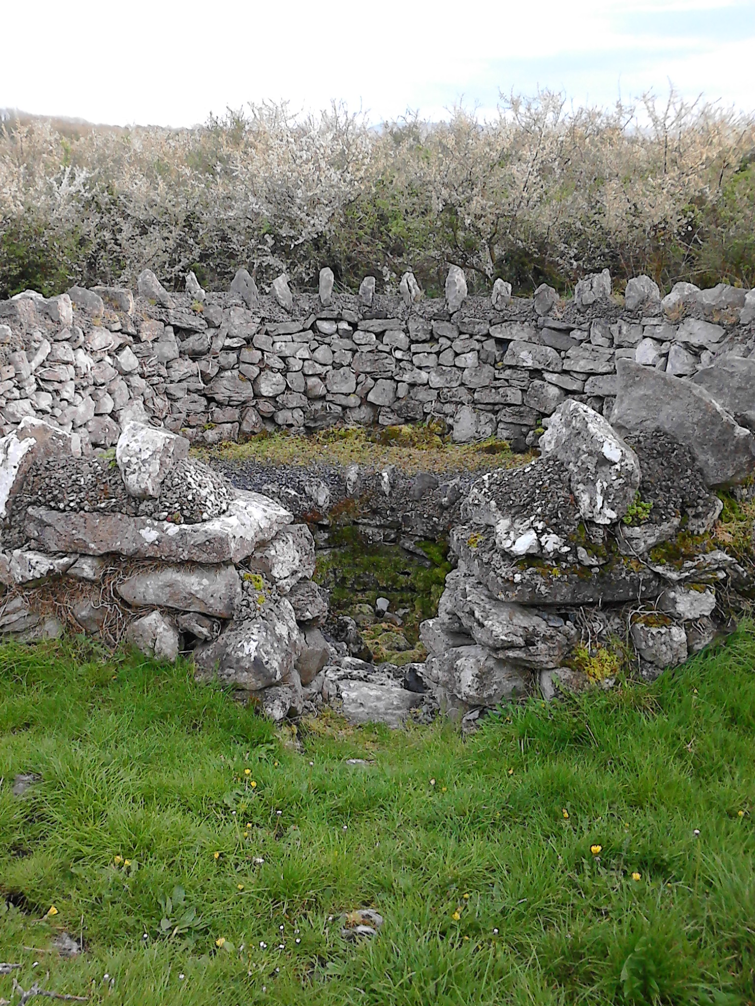 Well of Saint Sairnait (Saint Sourney), part of Drumacoo Early Medieval Ecclesiastical Site